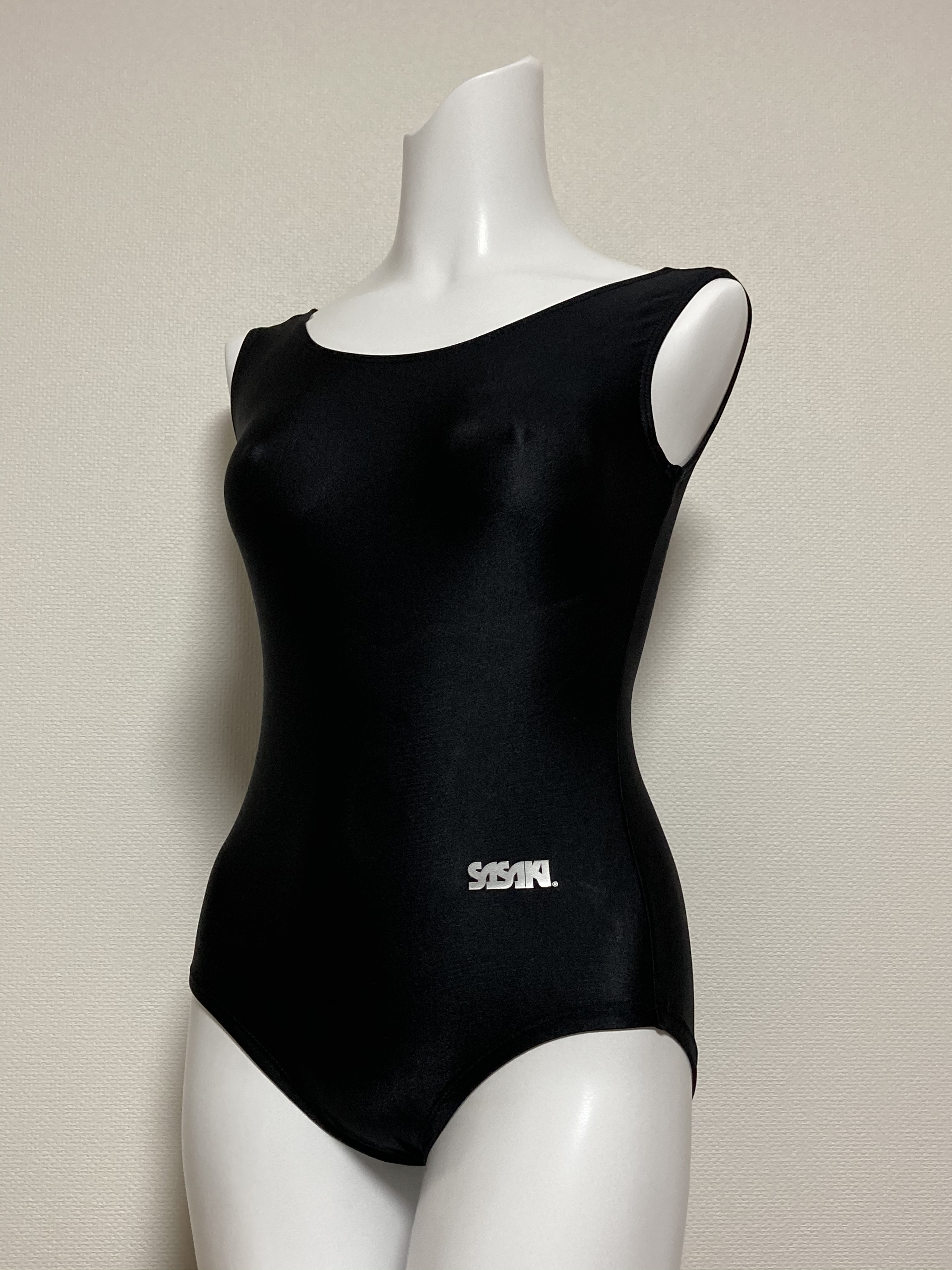 Sasaki U neck leotard